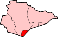 map 10:57, 8 February 2004 Morwen 200x130 (9083 bytes) (reupload)